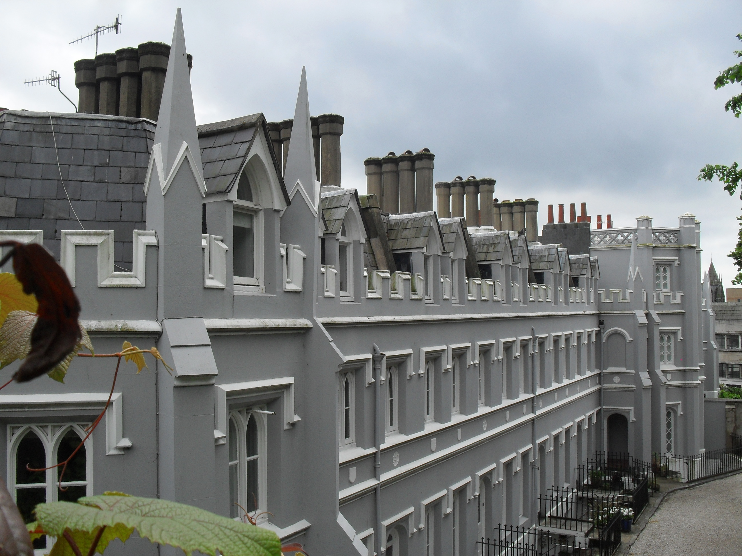 1 to 12 Wykeham Terrace, Brighton, City of Brighton and Hove, England. A terrace of 12 houses in the Tudor-Gothic style, built in 1827 possibly by Amon Henry Wilds. Listed at Grade II by English Heritage (IoE Code 481458)